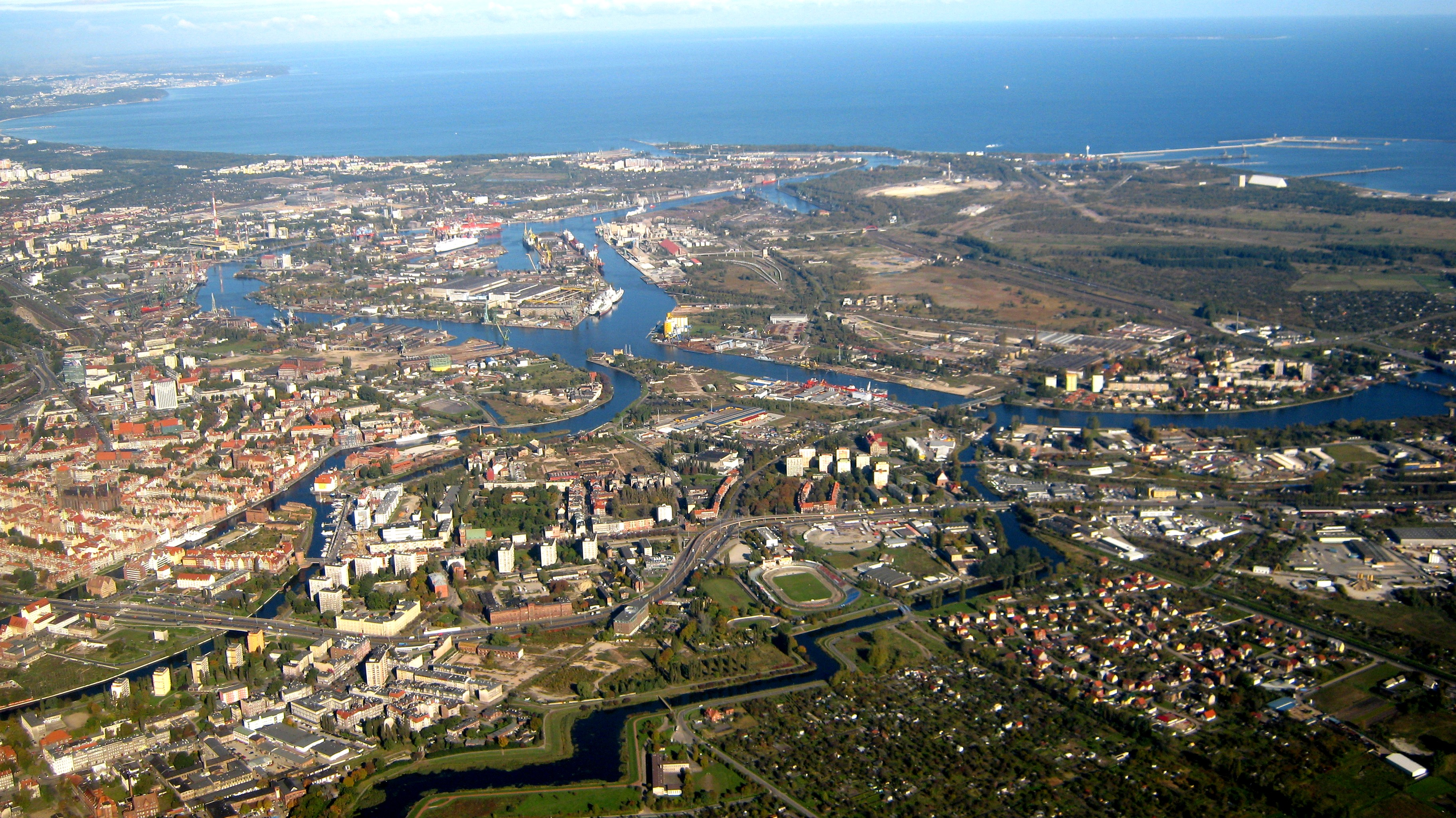 Gdańsk Downtown